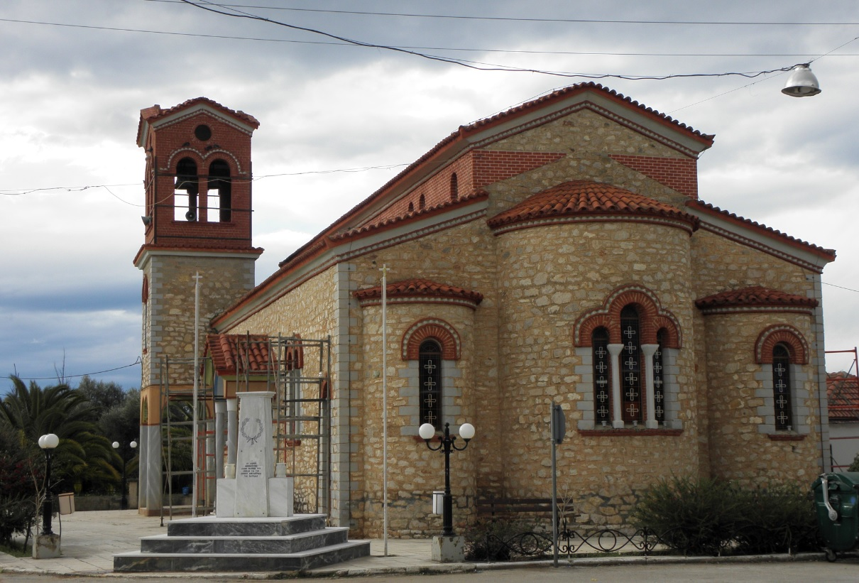 Christian Orthdodox church dedidated to Saint Demetrius in Chaikali village, Achaia, Greece.